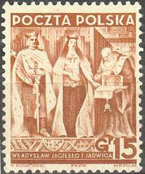 1939 Polish postage stamp (Fi. 334) - 20th anniversary of regained independence of Poland, King Wladislaus Jagiełło and Queen Jadwiga, without the Grunwald Swords